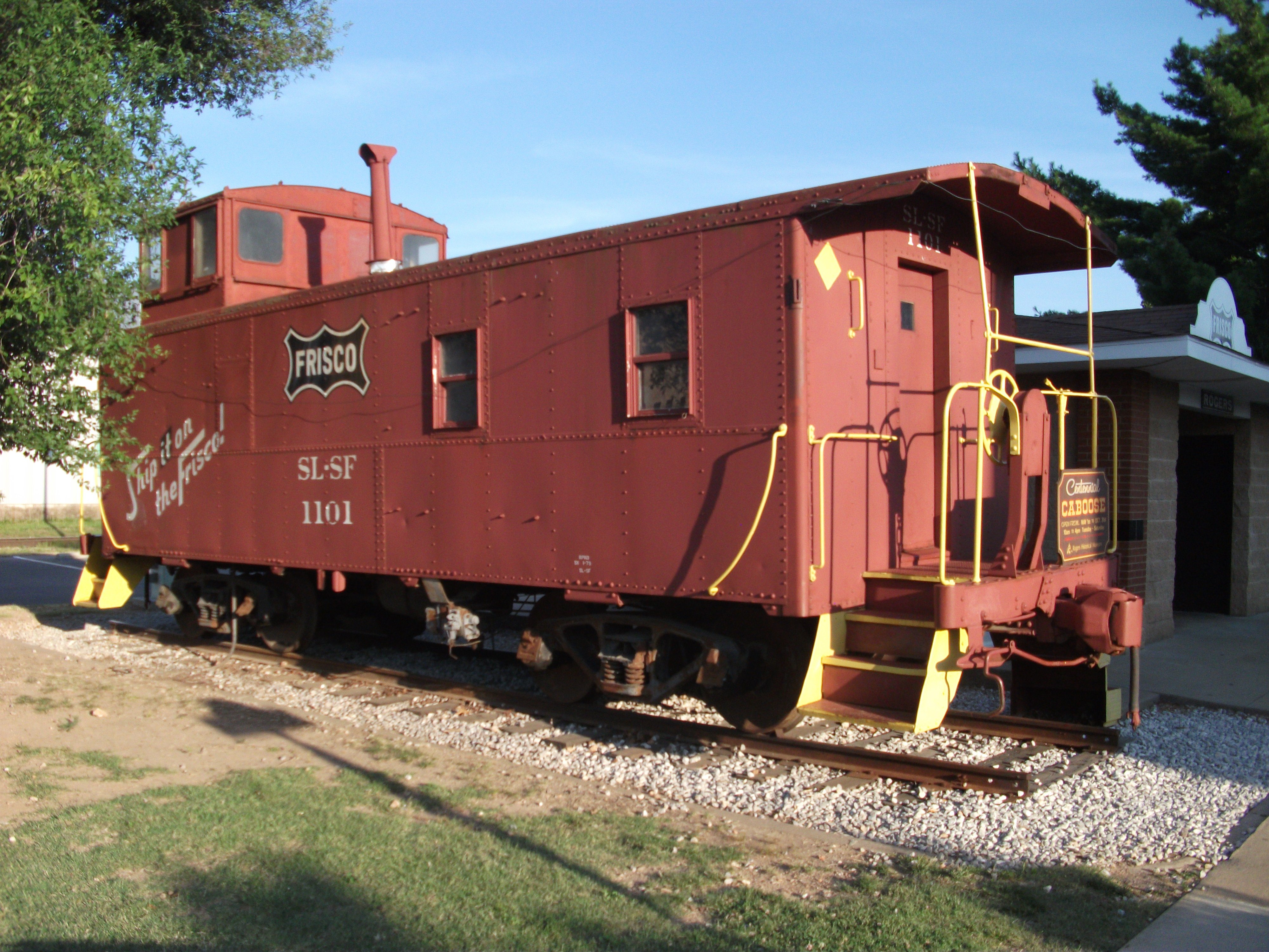 I photographed the "Centennial Caboose", a vintage Frisco train caboose in the historic district of Rogers, Arkansas. The caboose in emblematic of the town's railroad history.